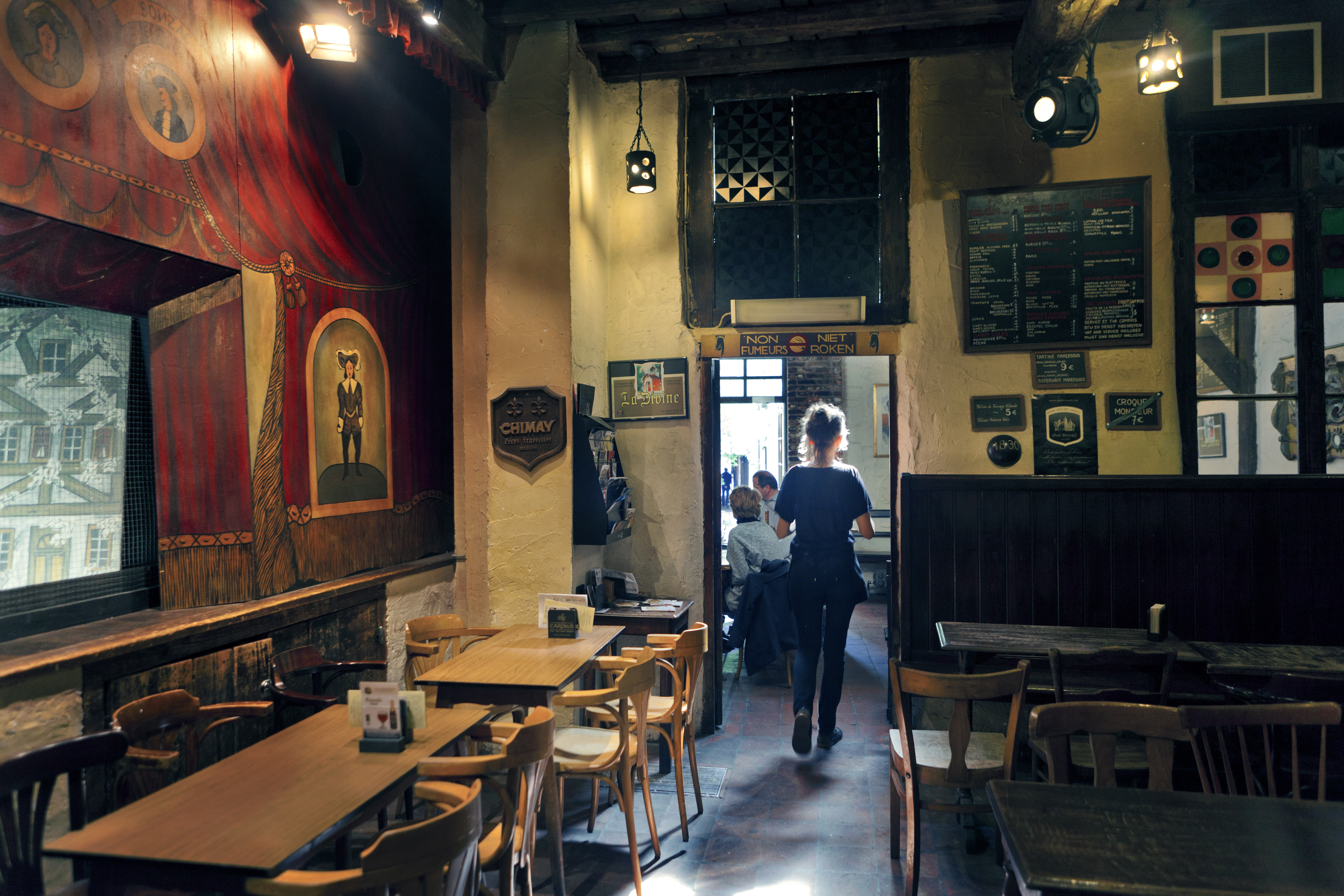 Brussels - Theatre Toone - Interior view